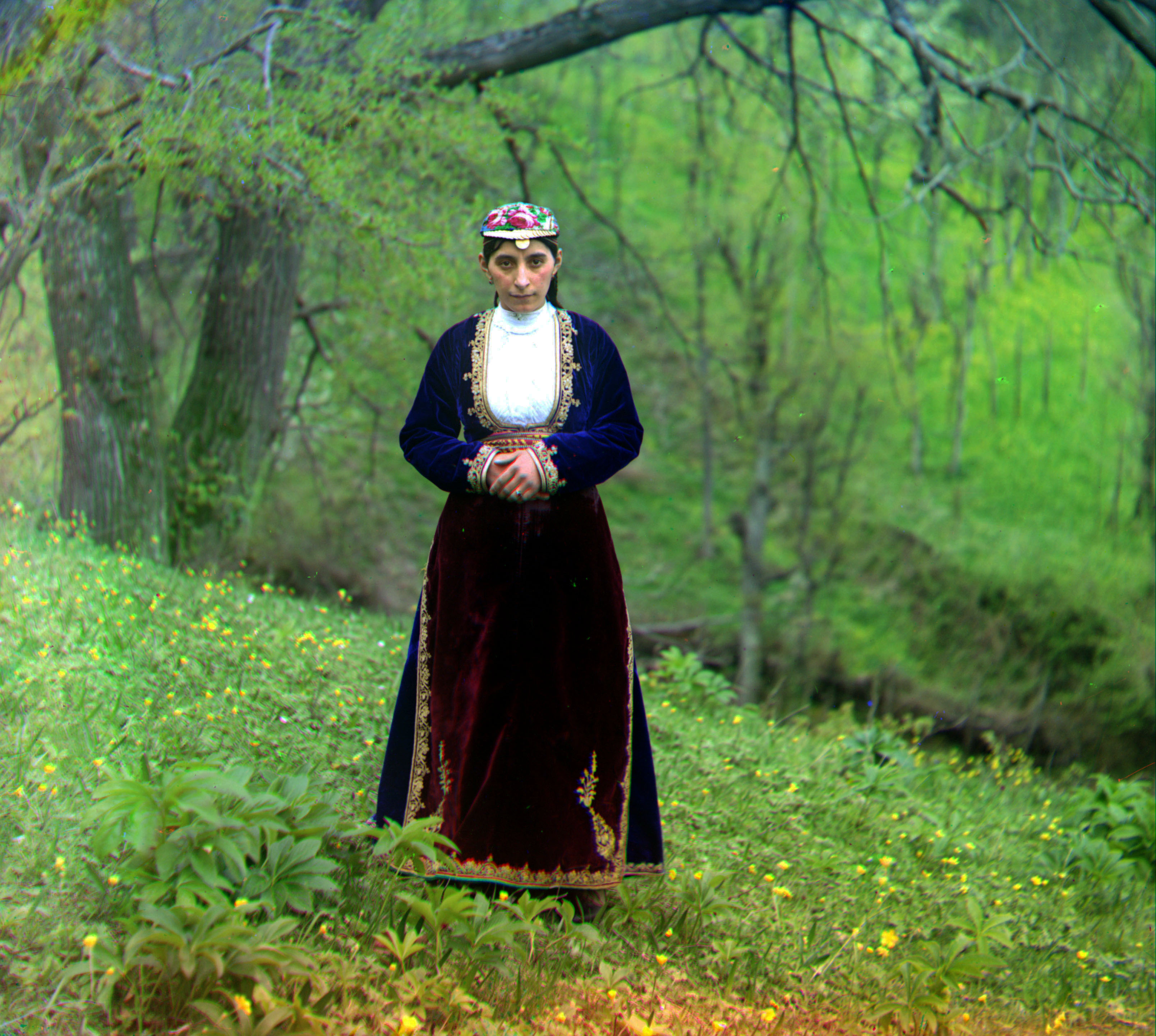 Armenian woman in national costume, Artvin